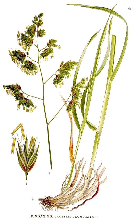 Dactylis glomerata L. s. str. Original Description "Hundäxing", Dactylis glomerata L.